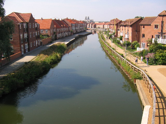 Beverley Beck, Beverley, East Riding of Yorkshire, England.The A1174 runs NS along the east edge of the square over the beck where this view is from. The minster is in the adjacent square.